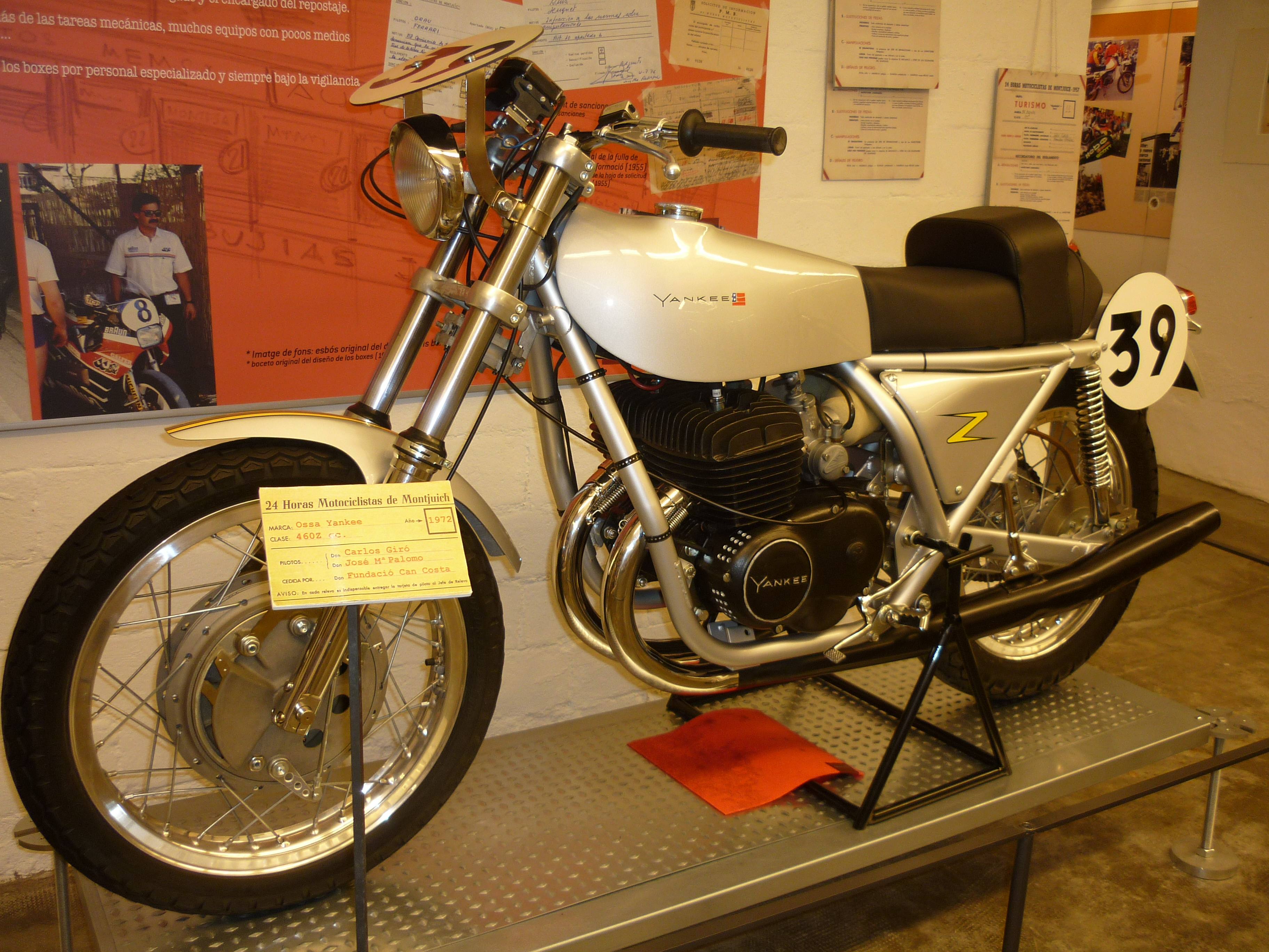 OSSA Yankee 460cc. This bike was ridden by Carles Giró and Josep Maria Palomo at XVIII 24 Hours of Montjuïc, on 1972